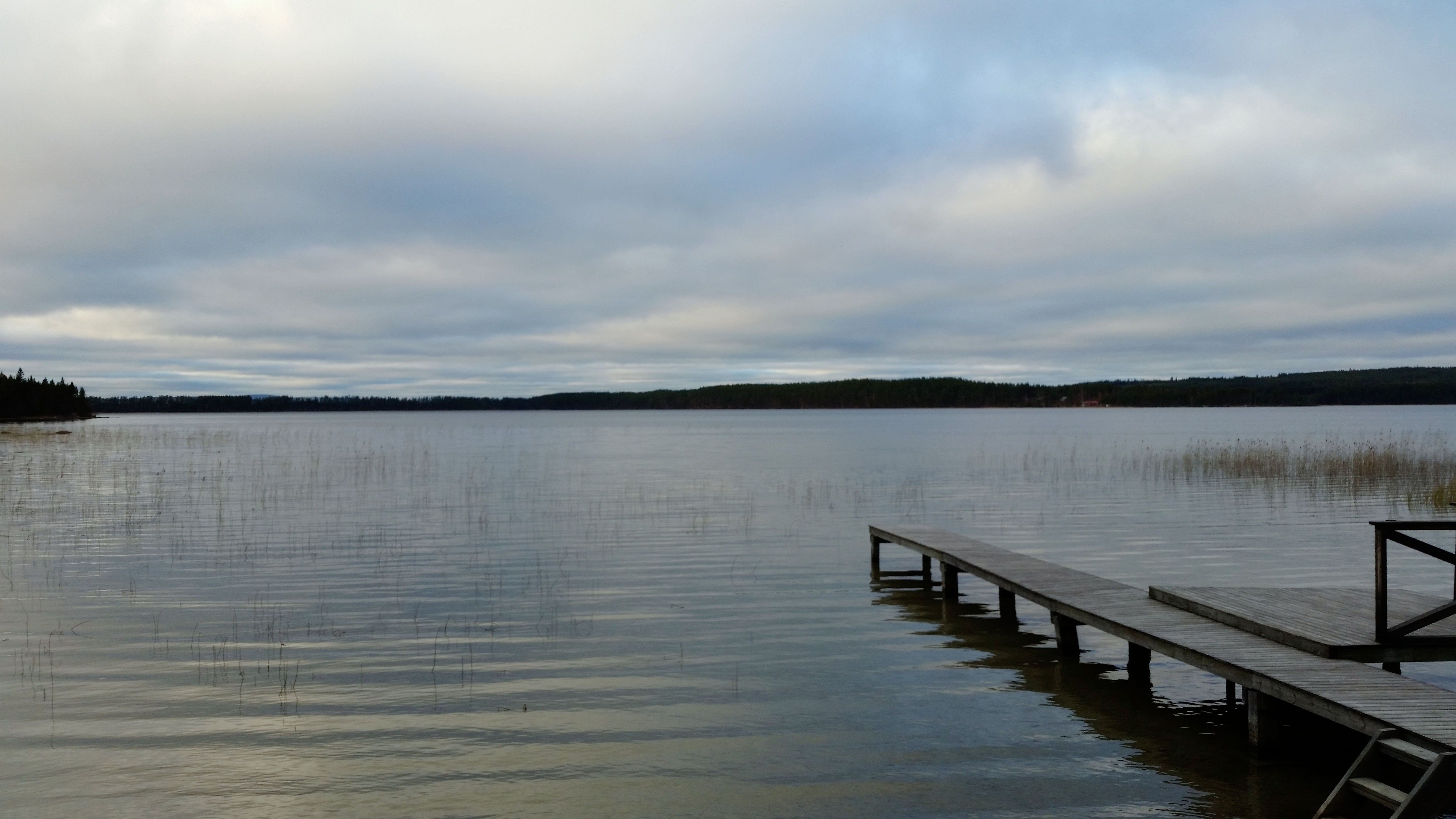 Abborrträsket (Perch Lake). Straight ahead in the picture is the esker that almost divides the lake into two parts.